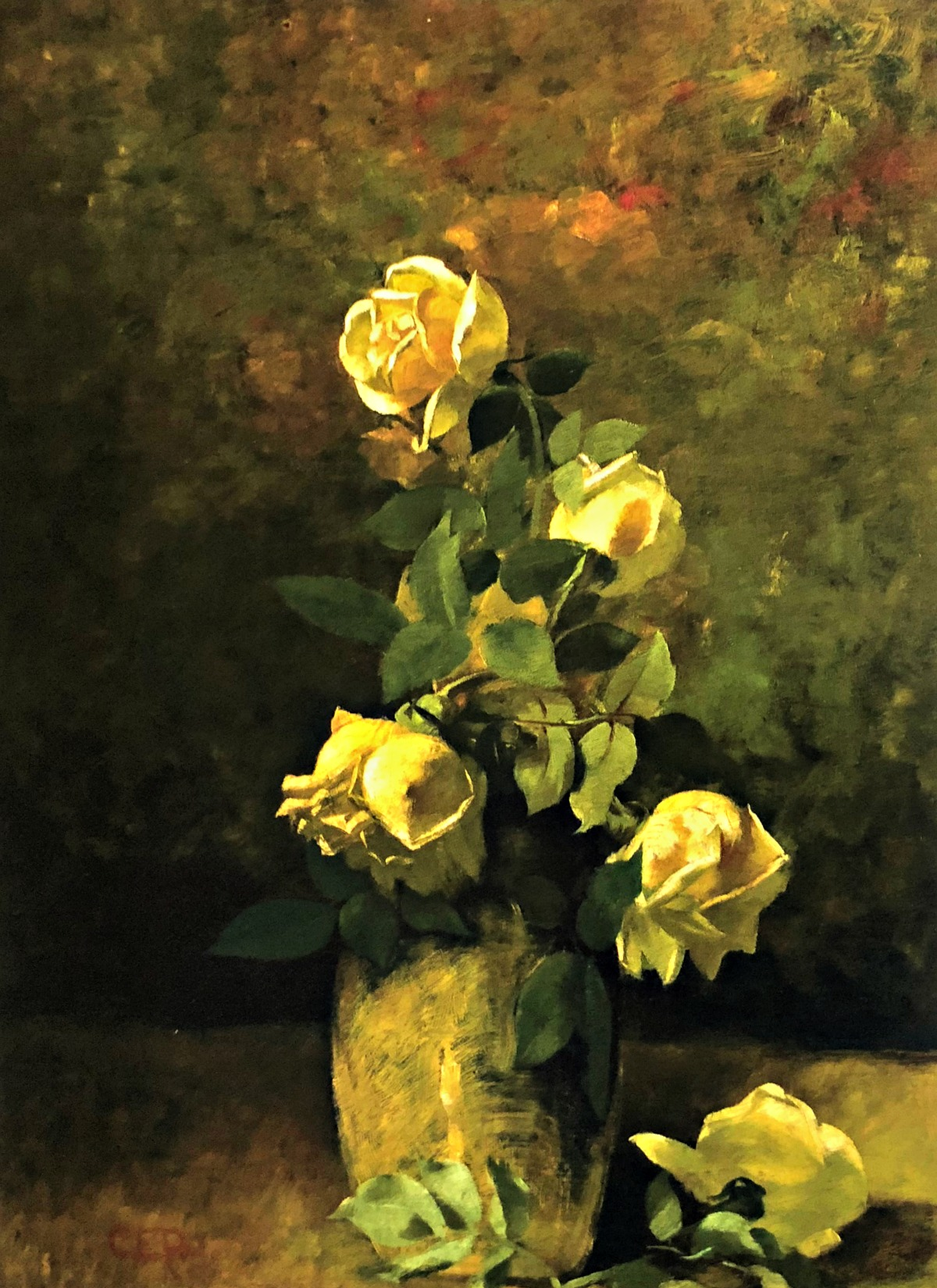 Yellow roses in a vase, by Charles Ethan Porter 1890